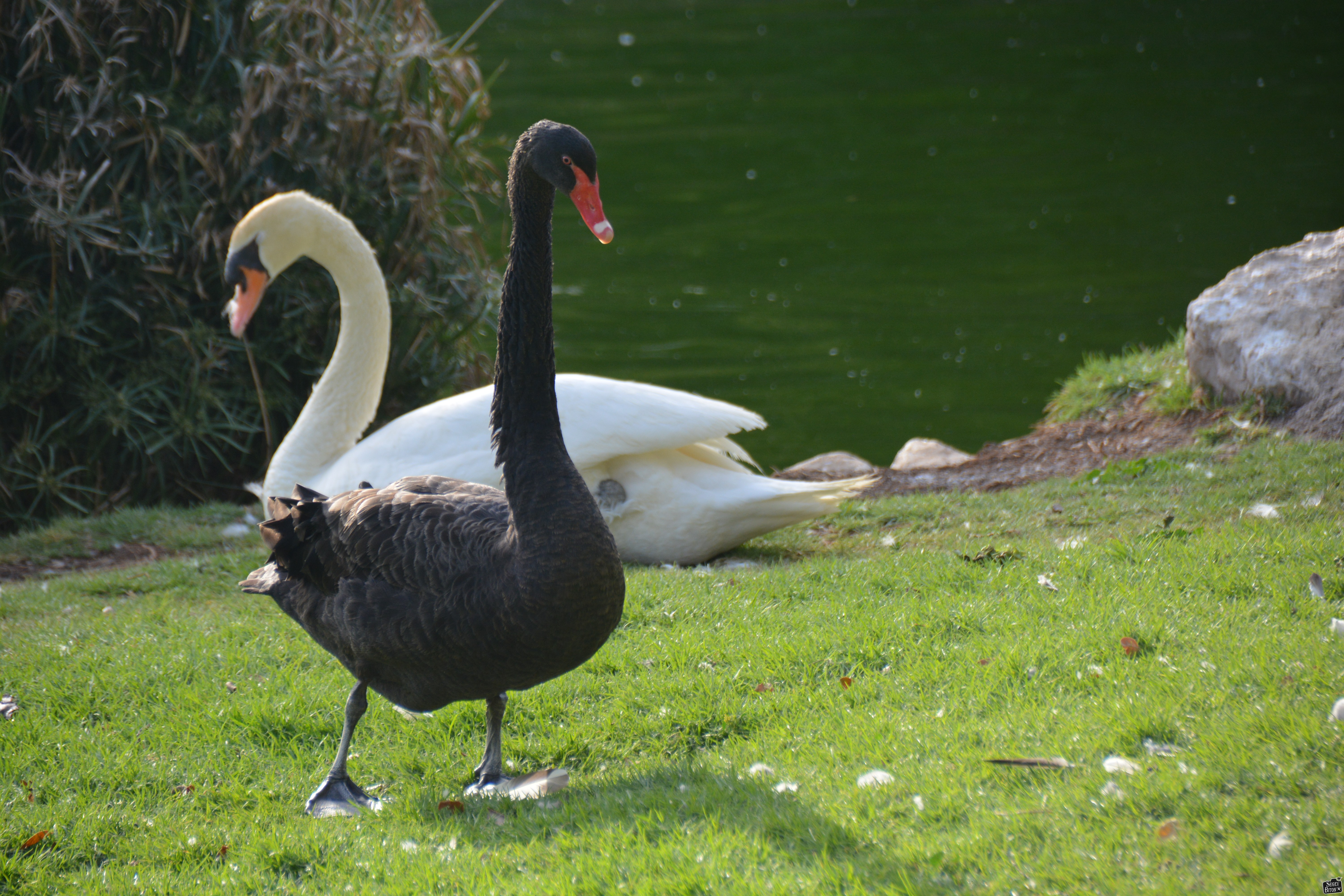 A Mute swan and a Black swan at the Jerusalem Biblical Zoo